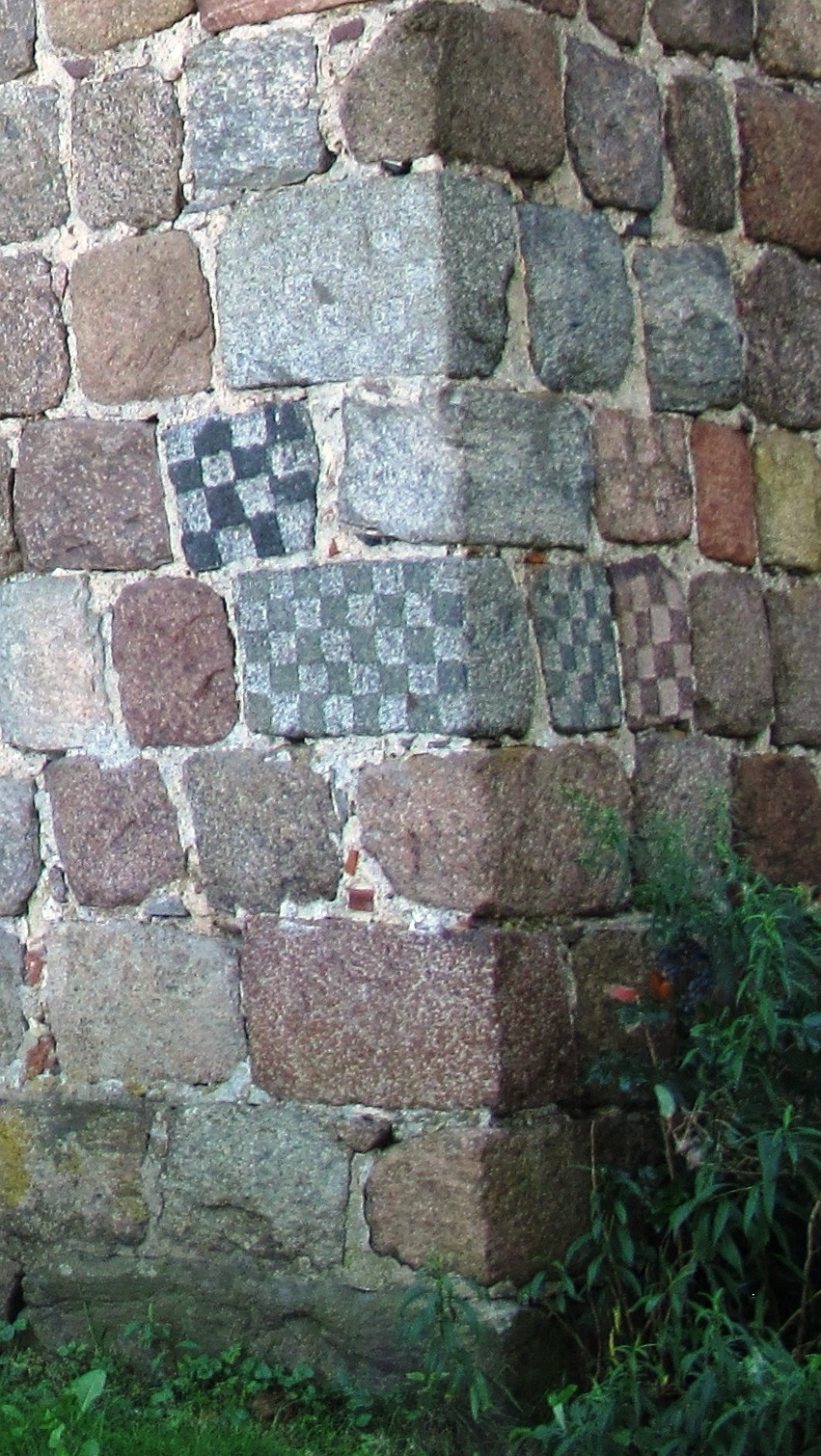 Schachbrettstein (german for: chessboard stone) on the listed village and Fieldstone church in Grunow, a village of the municipality Oberbarnim in the District Märkisch-Oderland, Brandenburg, Germany. The church was built in the 13th-century. It has the unusually high number of seven „Schachbrettsteinen“ and an in this region unique stone with the Jerusalem cross. Schachbrettsteine are fieldstones with a checkerboard pattern, which are sporadic attached to the outer walls of medieval fieldstone churches, especially in the South Baltic Sea area. Their significance/function is unclear.